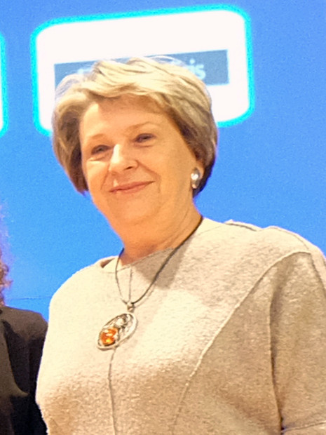 Irena Eris, Warsaw 20/03/2017.